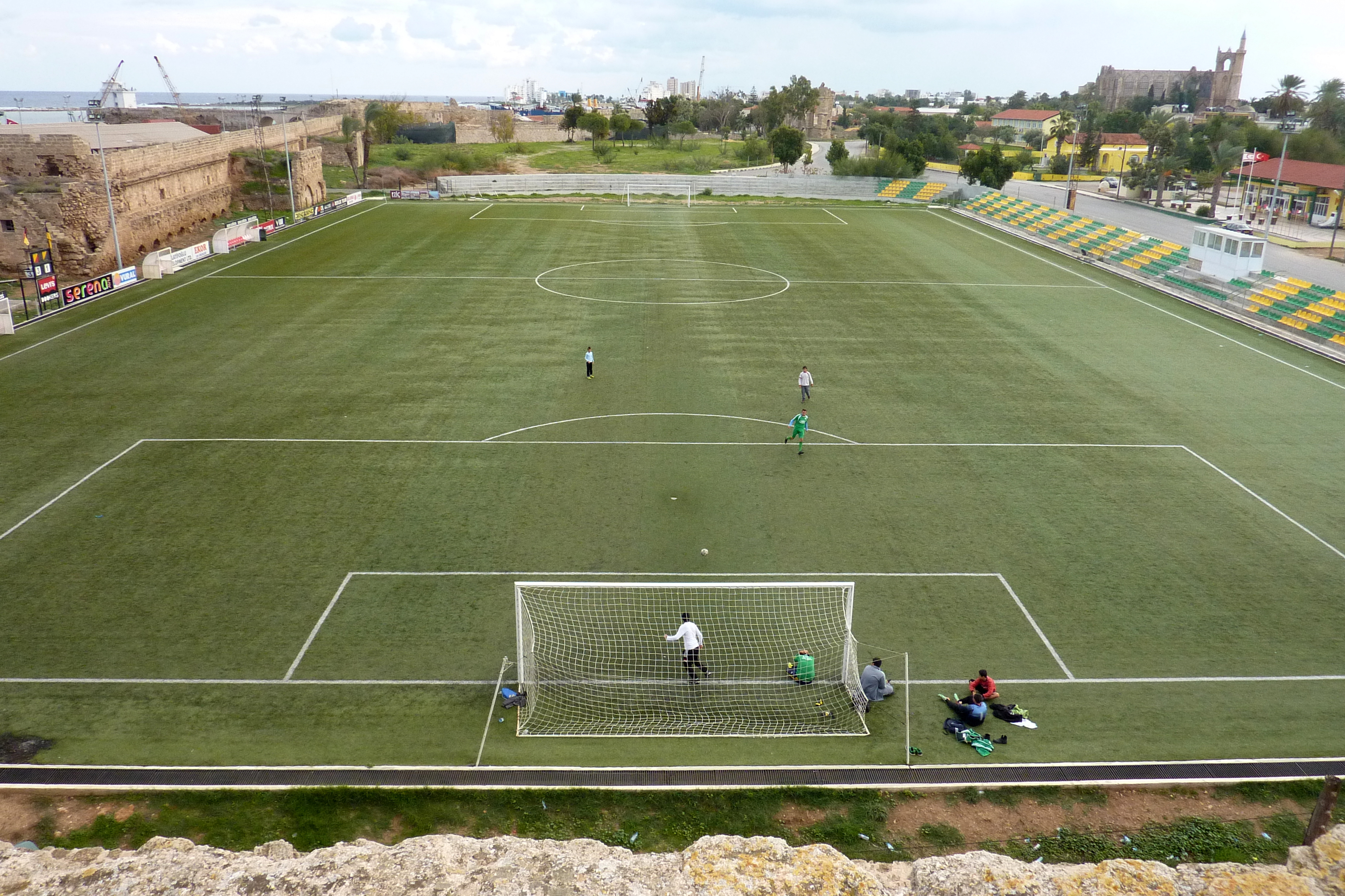 Canbulat Stadium in FamagustaTürkçe: Mağusa Canbulat Stadı